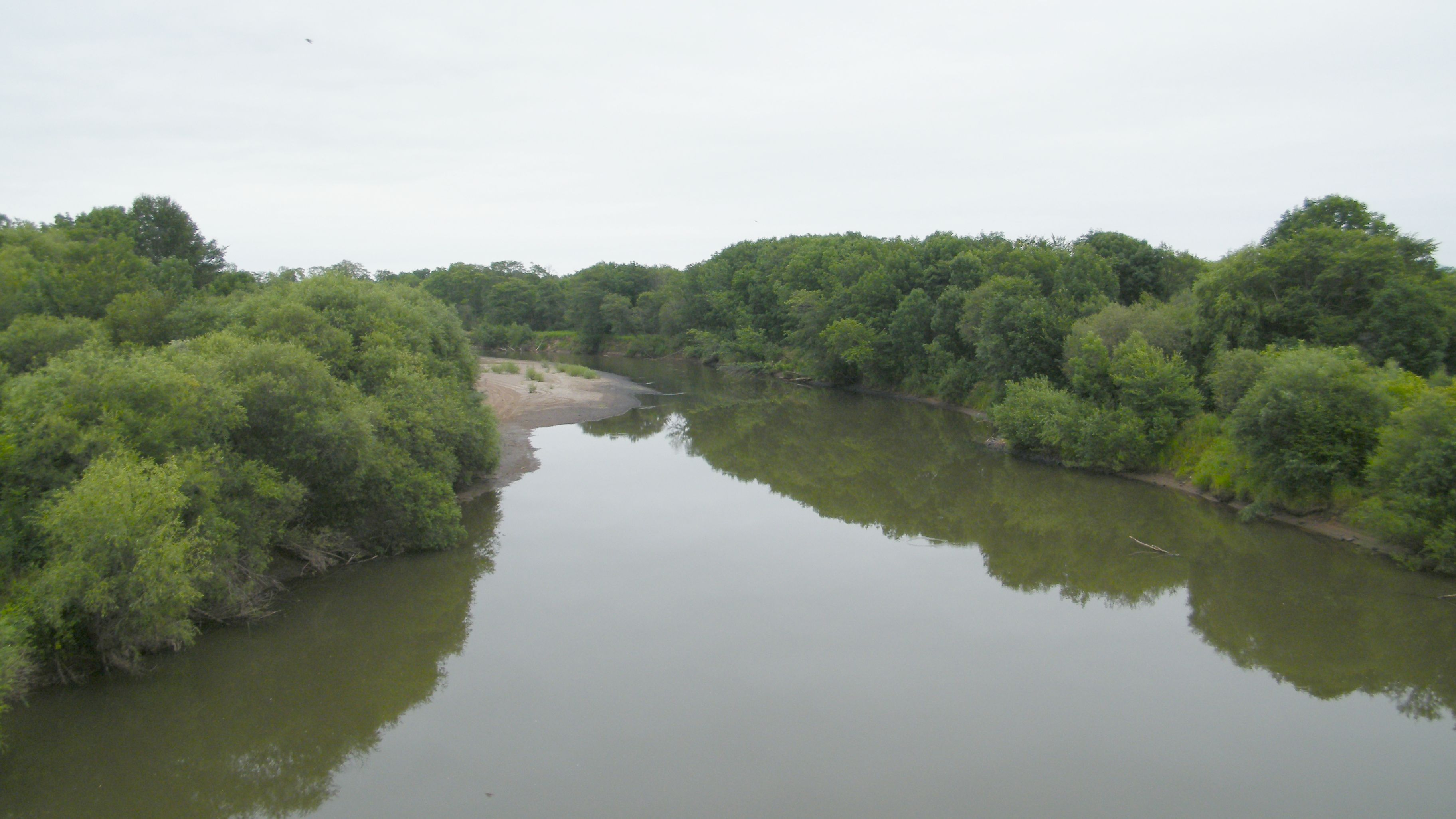 Река Арсеньевка у села Яковлевка, Приморье